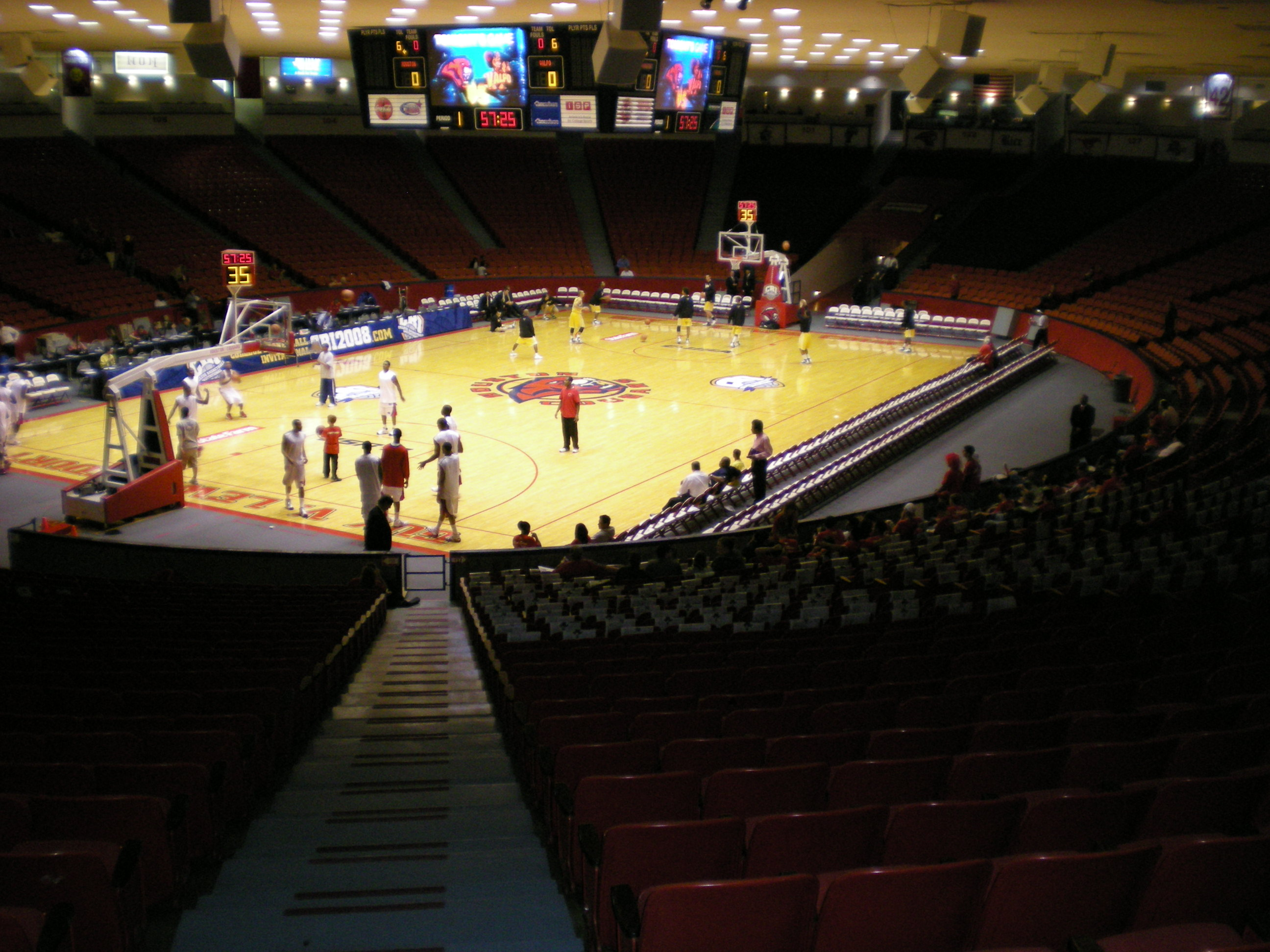 The inside of Hofheinz Pavilion at the University of Houston before the 2008 CBI Quarterfinals game.